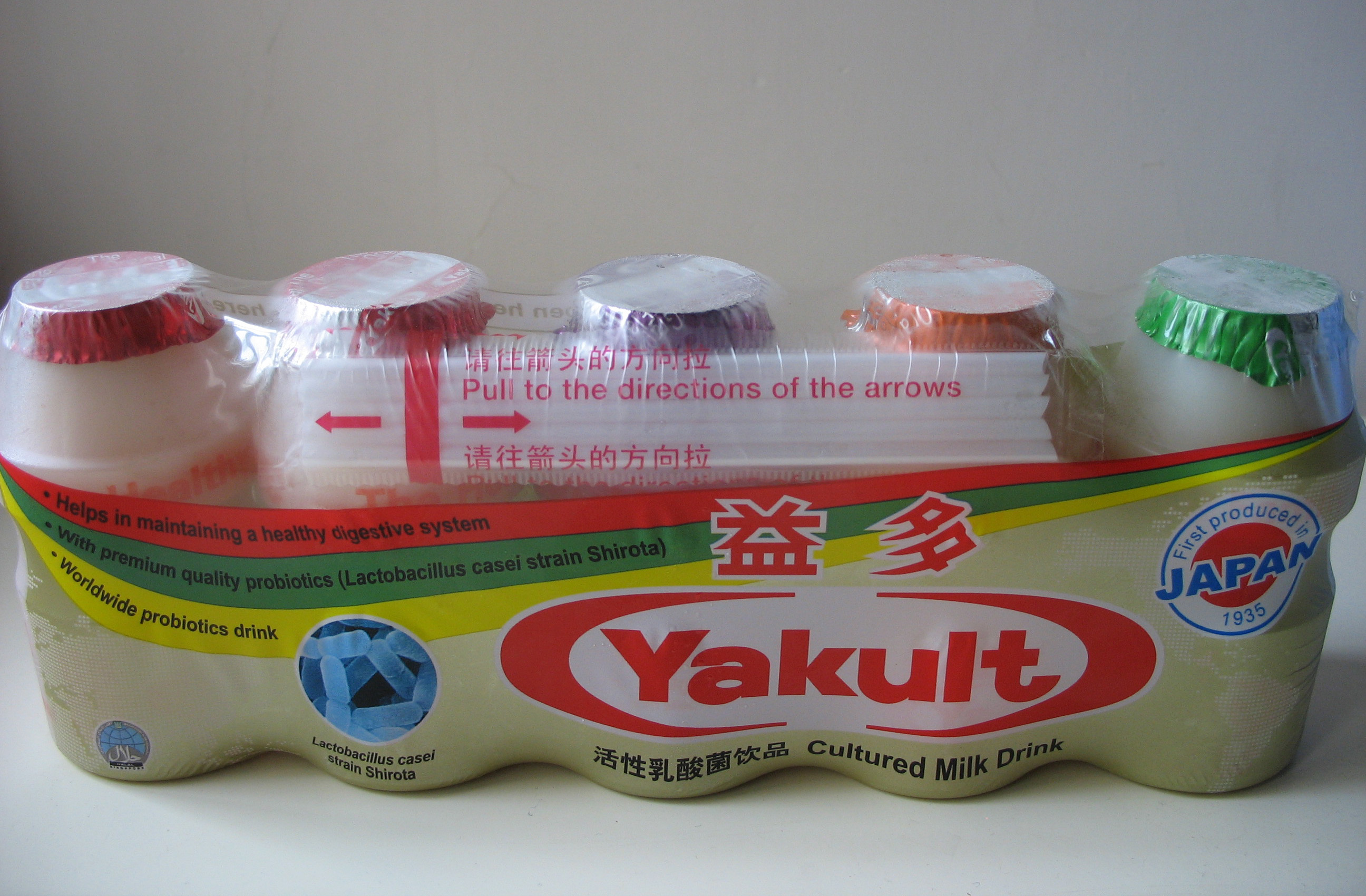 Variant flavours of 100ml bottles of Yakult. Singapore.